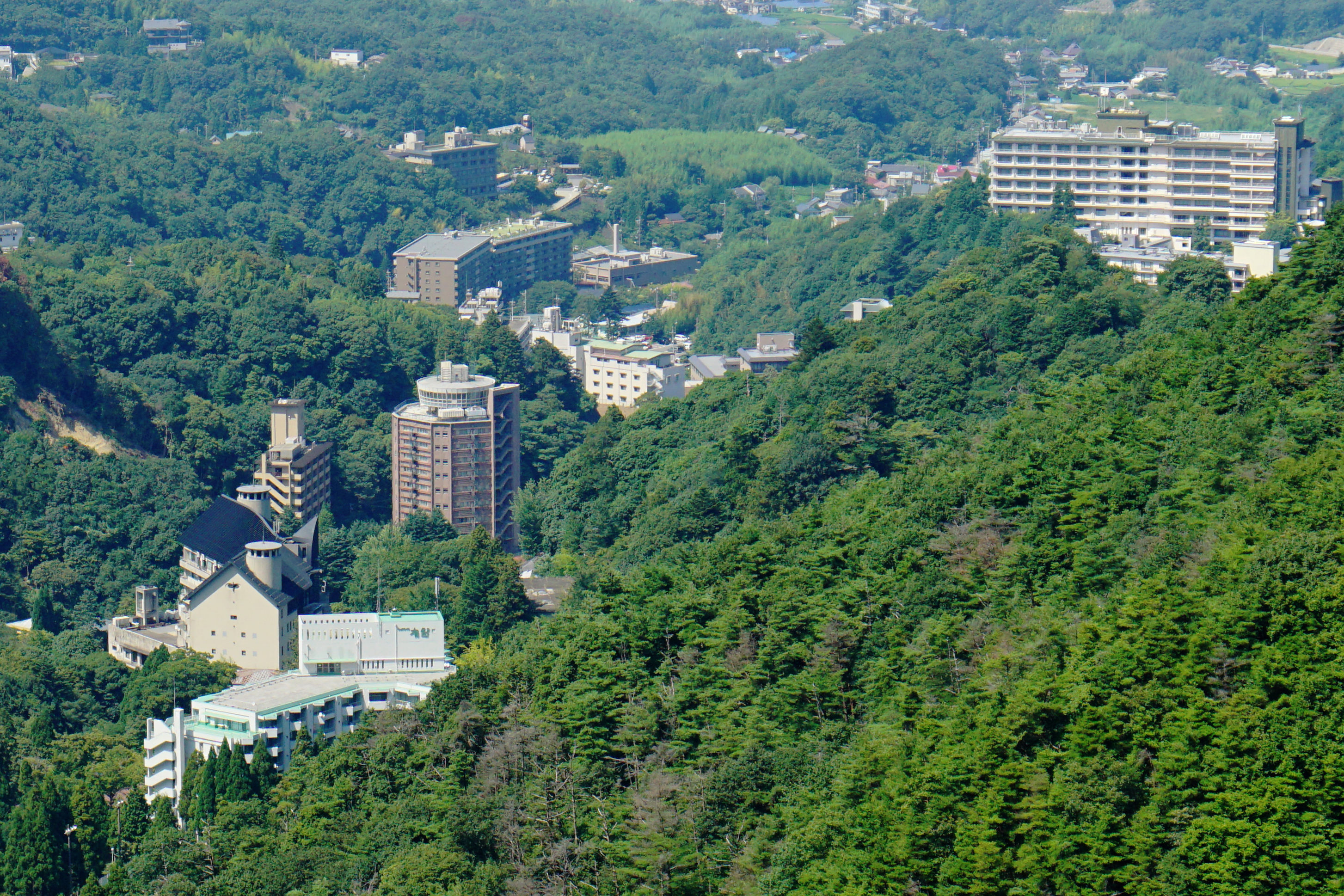 Rokkō Arima Ropeway in Kobe Hyogo prefecture, Japan